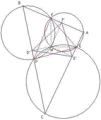 Miquel's pivot point: DEF and D'E'F' (pedal triangle of M) are similar